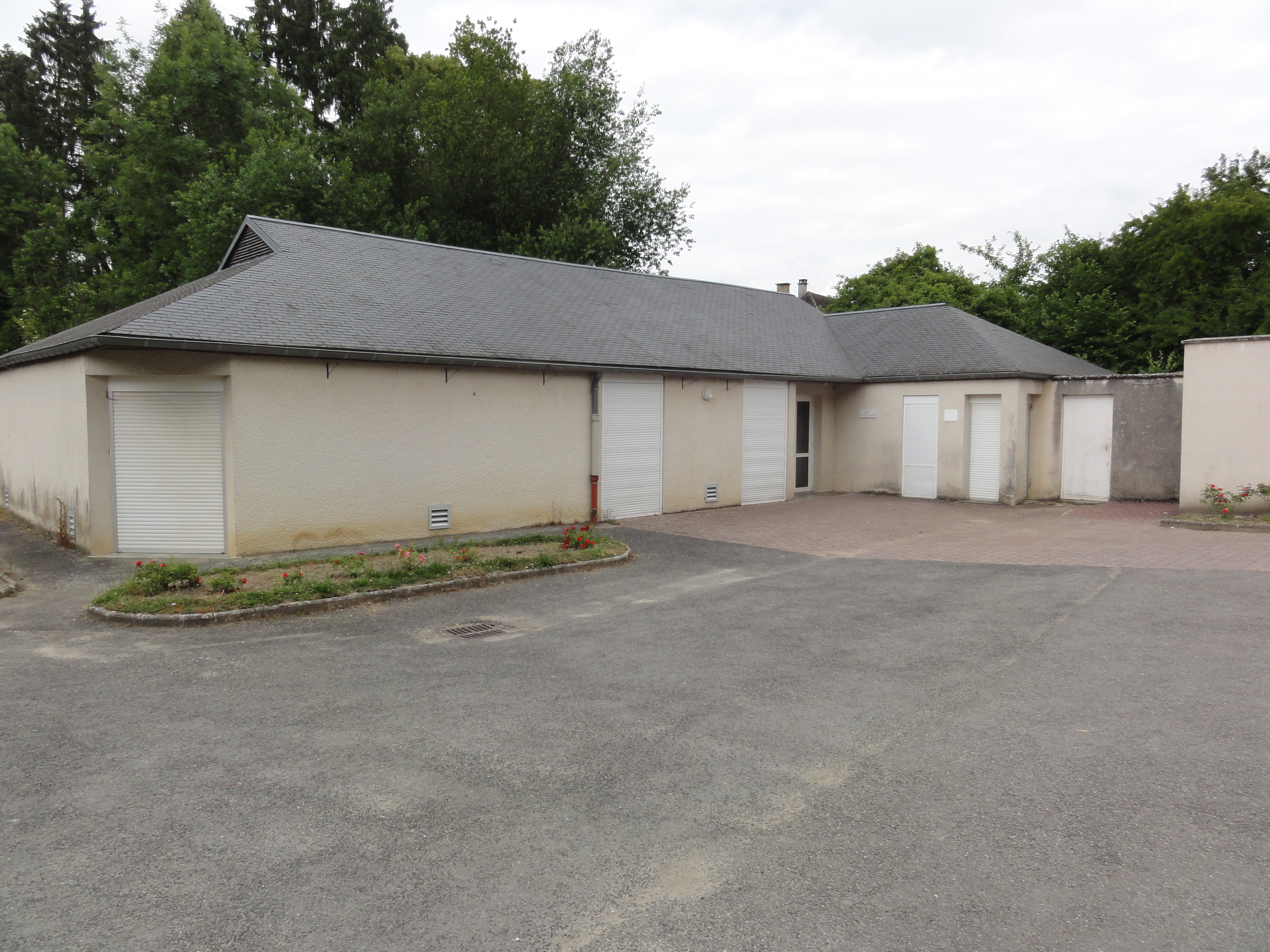 Puiseux-en-Retz (Aisne) salle polyvalente